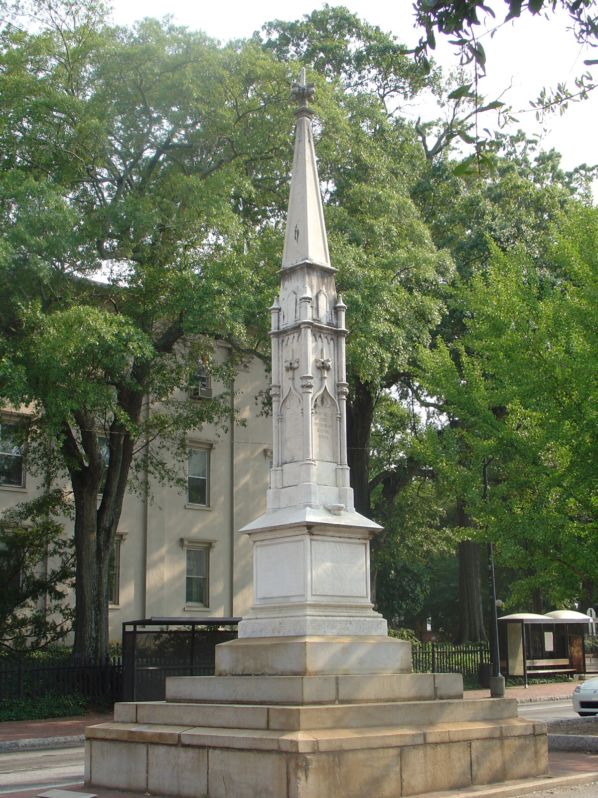 to something or other, at College and Broad St